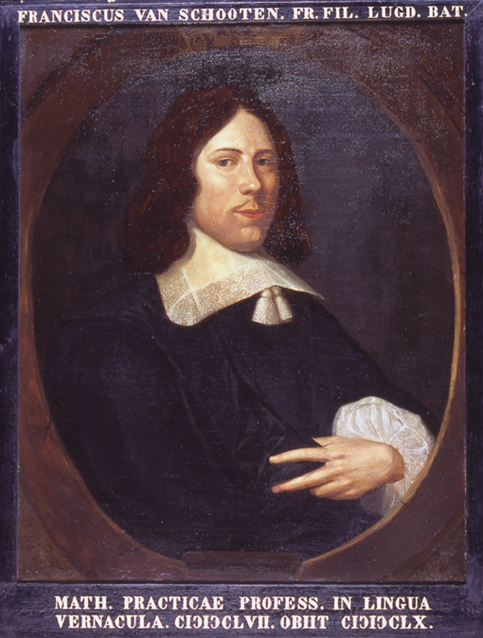 Frans van Schooten Jr. (1615-1660)